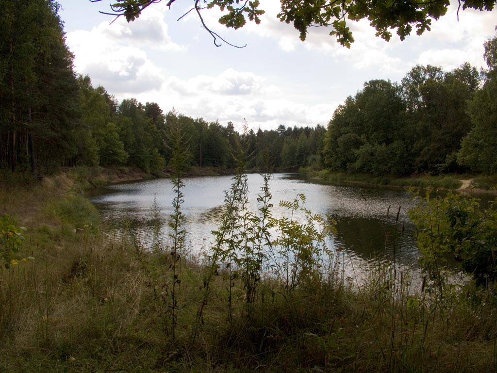 Kerzhenets River near "Ozero" ("Lake") railway station